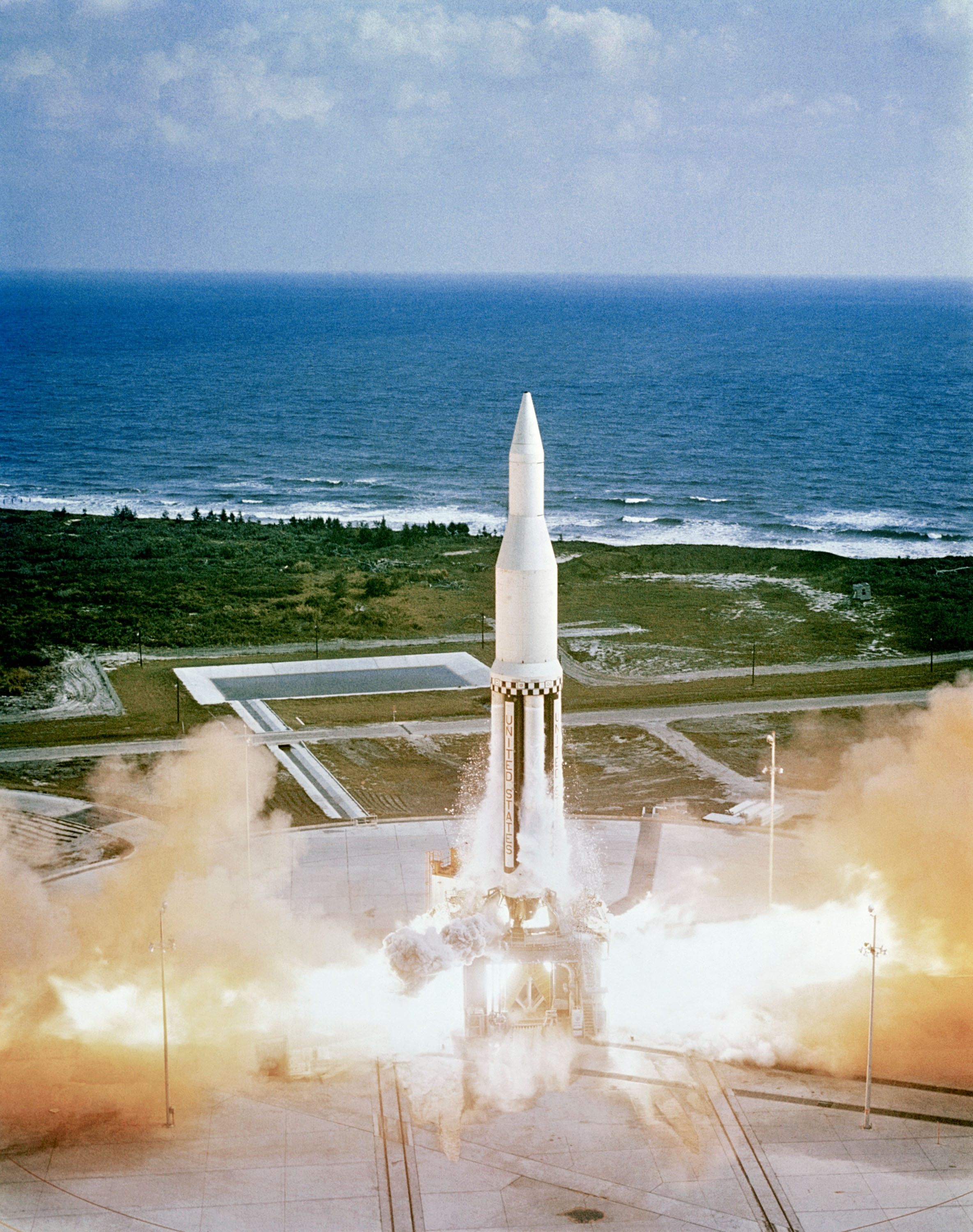 The Marshall Space Flight Center's first Saturn I vehicle, SA-1, lifts off from Cape Canaveral, Florida, on October 27, 1961. This early configuration, Saturn I Block I, 162 feet tall and weighing 460 tons, consisted of the eight H-1 engines S-I stage and the dummy second stage (S-IV stage).